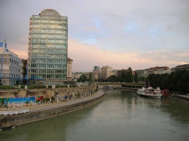 Vienna - Donaukanal